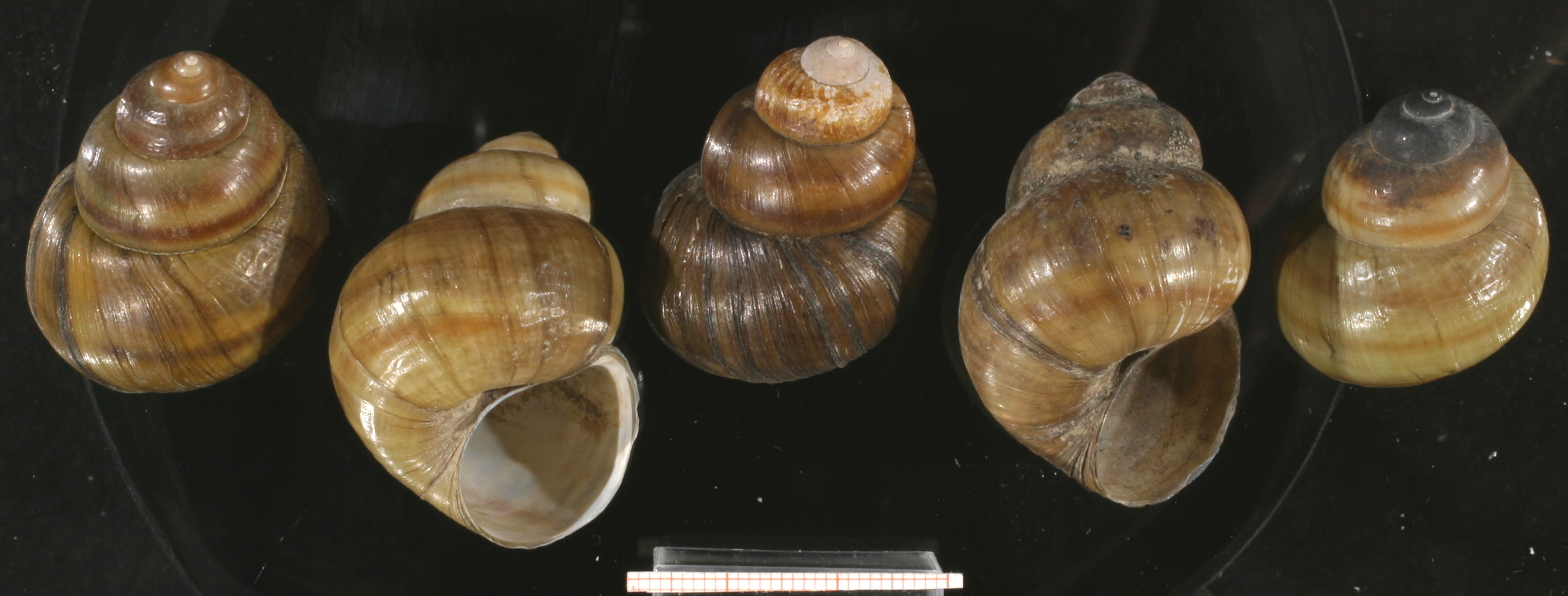 Photo of Viviparus acerosus. Scale in mm. Locality: Slovakia: Botany Vychodosl Niz. Date: 25-04-1979.